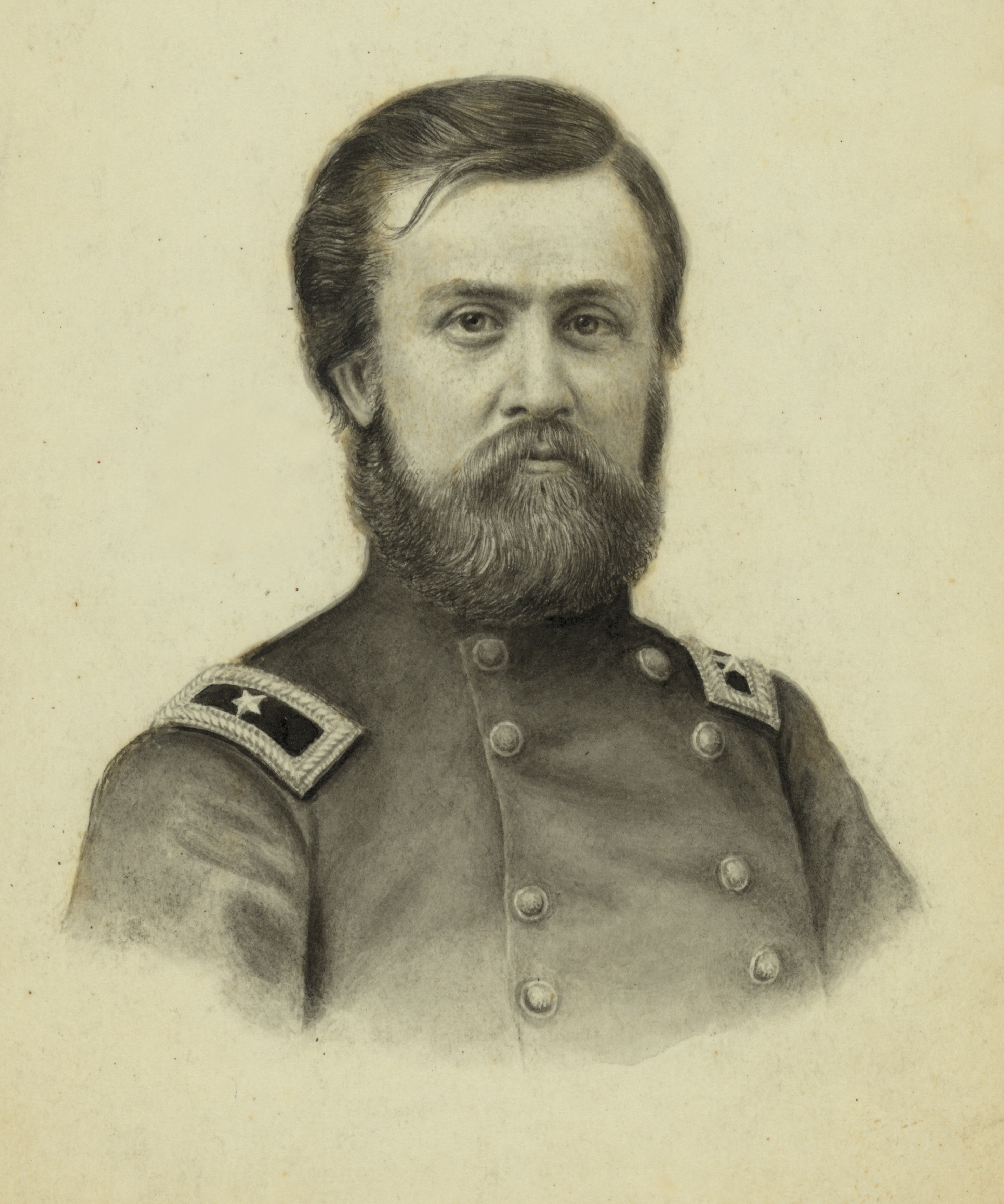 Portrait of Union General John G. Mitchell of Columbus, Ohio.